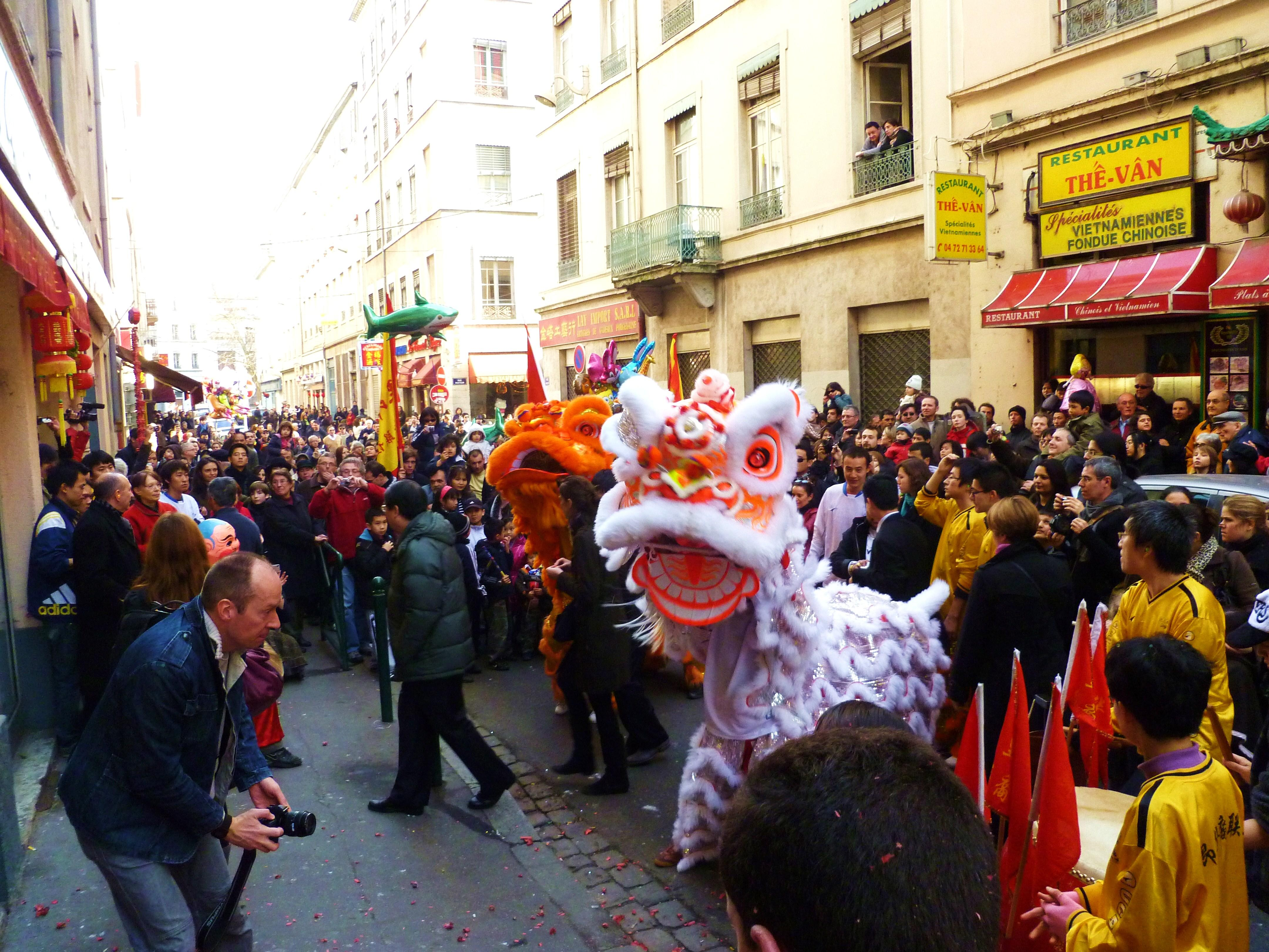 Asian new year in Lyon's Chinatown (rue Passet, La Guillotière). The mayor of Lyon Gérard Collomb can be seen on the left.